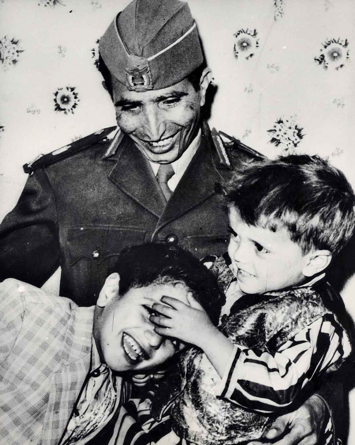 Hassan al-Amri with his kids, 1965